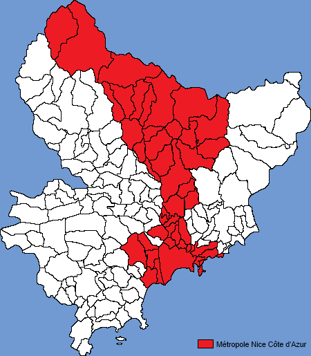 Location of the 'métropole Nice Côte d'Azur' in the Alpes-Maritimes department, France.